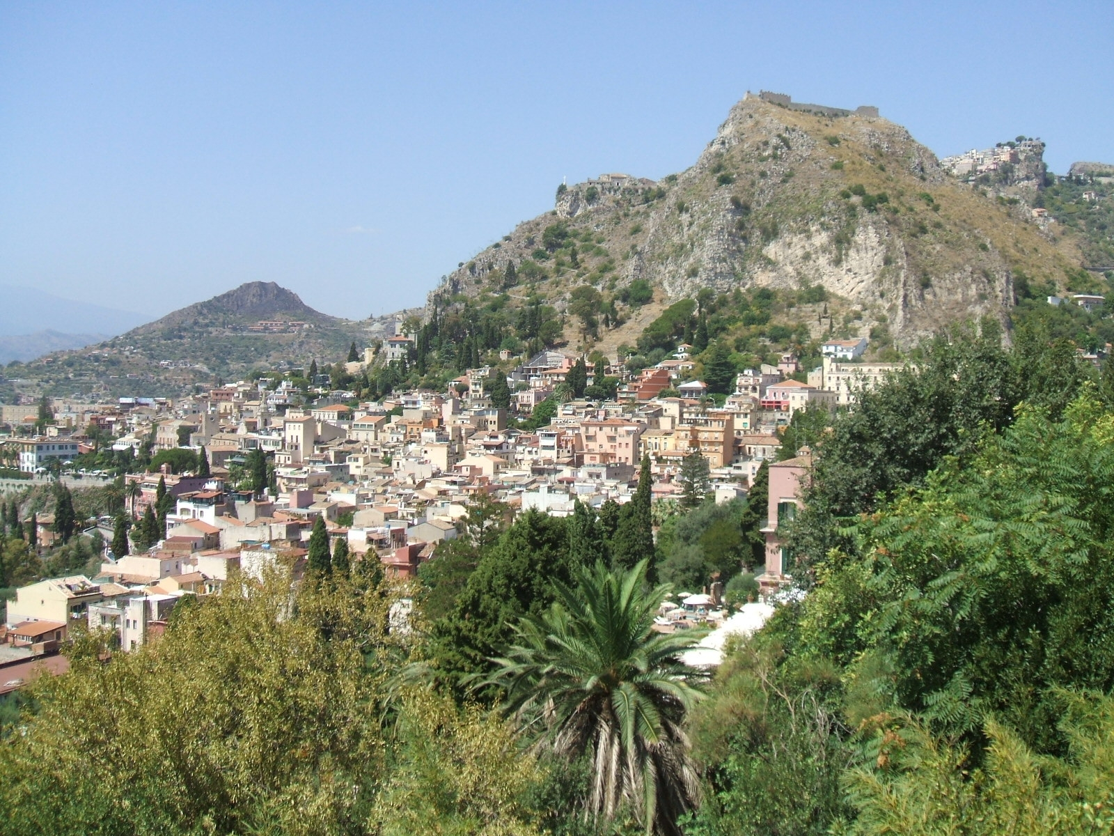 General view of Taormina taken from the ancient Greek theater